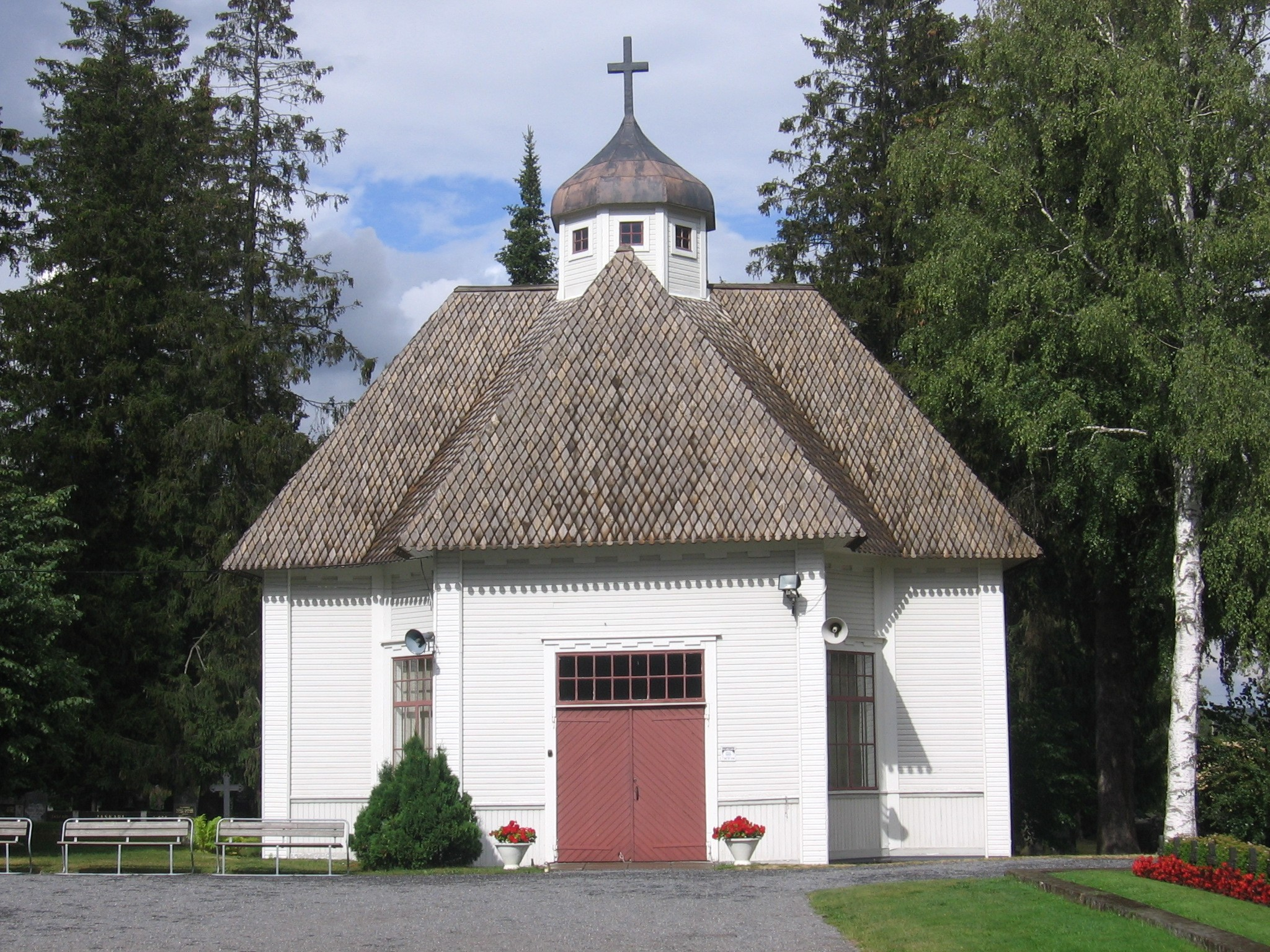 Cemetery chapel of Nurmo Church in Nurmo, Finland